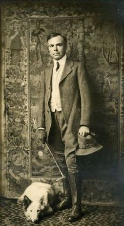 abt 1919